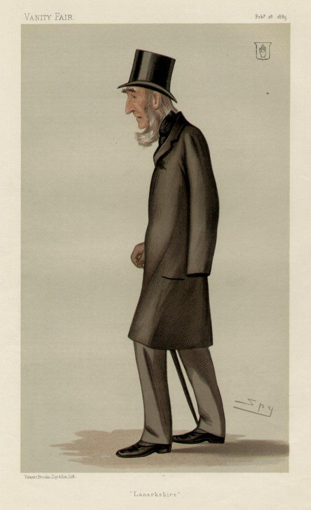 Statesmen No.460: Caricature of Sir TE Colebrooke Bt MP. Caption reads: "Lanarkshire"